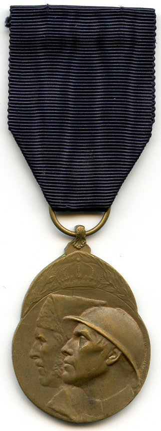 1914-18 Volunteer Combatant's Medal (Belgium)